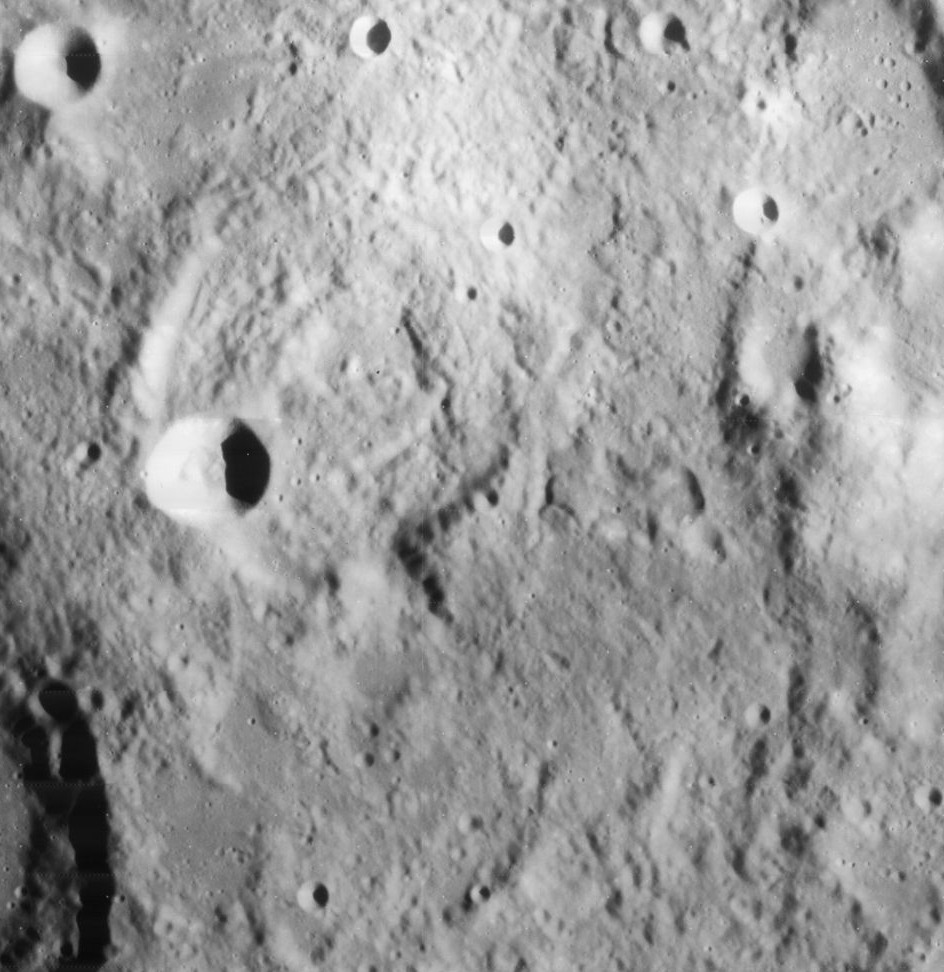 Descartes, on the moon.